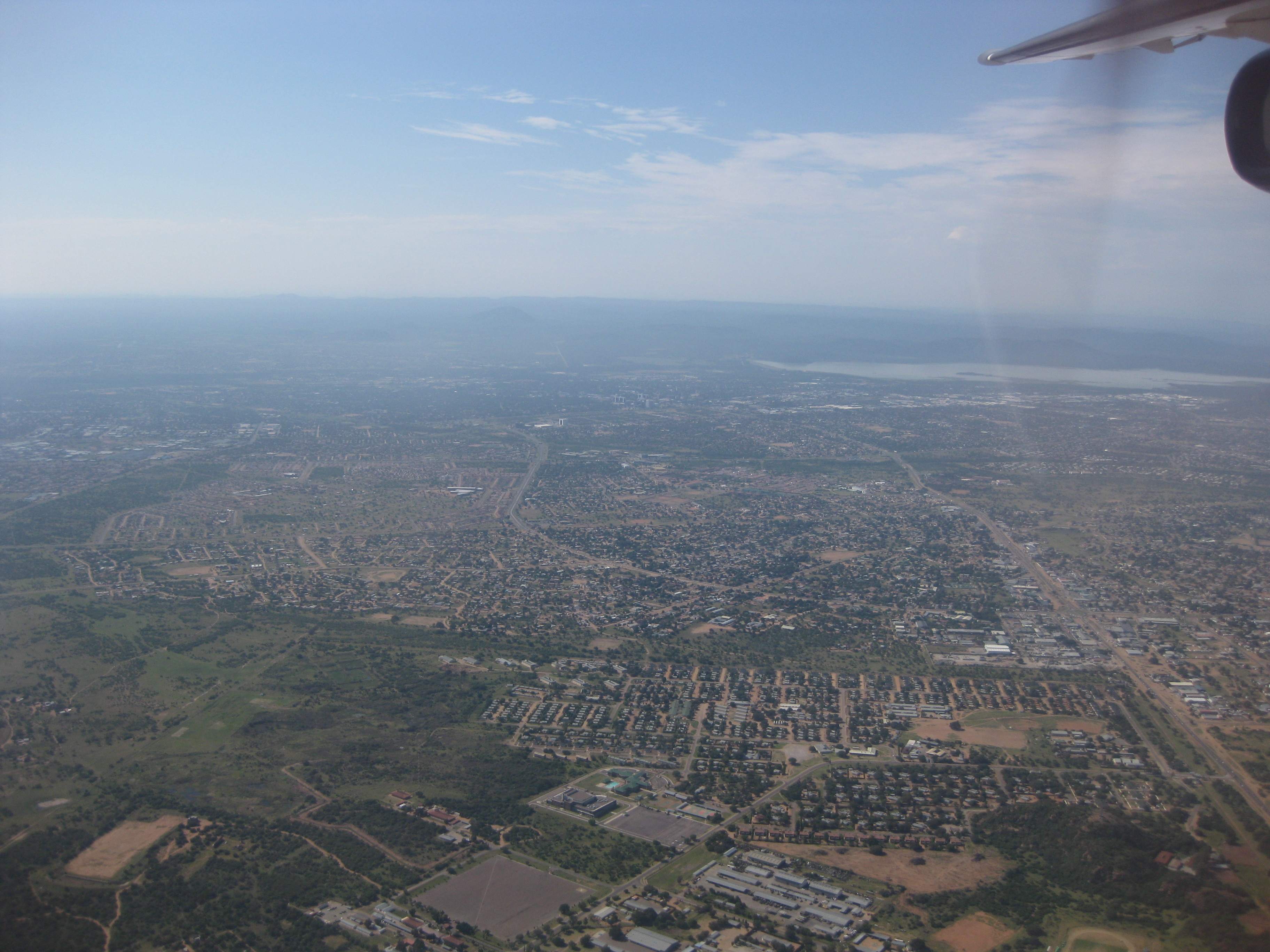 Aerial view of Gaborone, Botswana, looking east. Downtown is in the right-center of the image, with the reservoir just beyond.